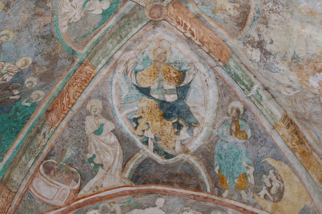 fresco within the apside of All Saints Church near Ružomberk / Slovakia